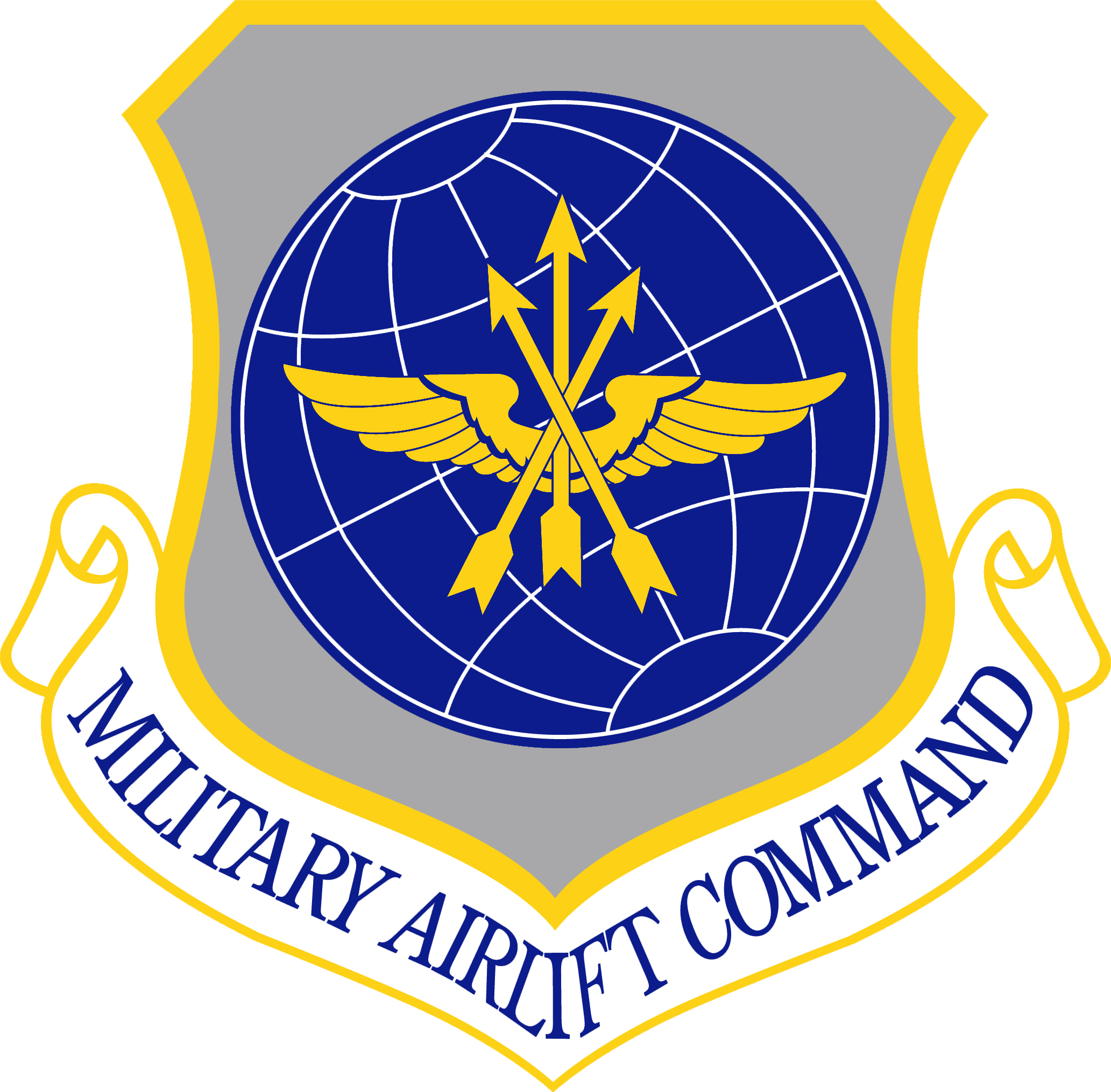 United States Air Force Military Airlift Command emblem. Made with Photoshop.